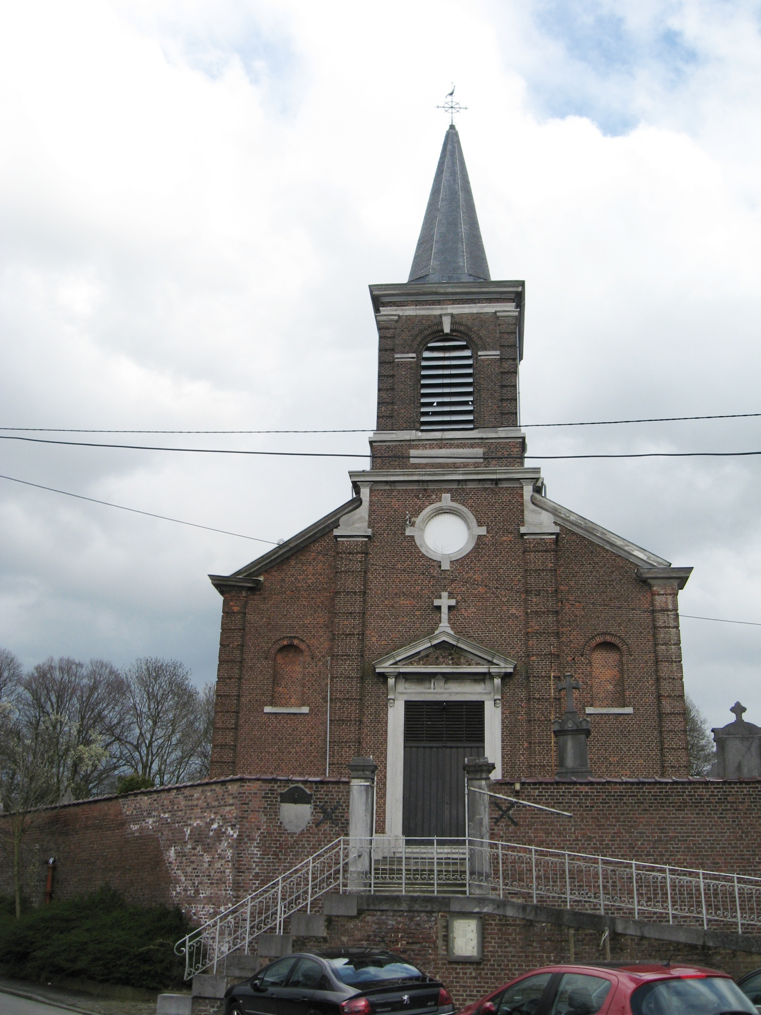 Church of Saint Vincent in Kemexhe, Crisnée, Liège, Belgium